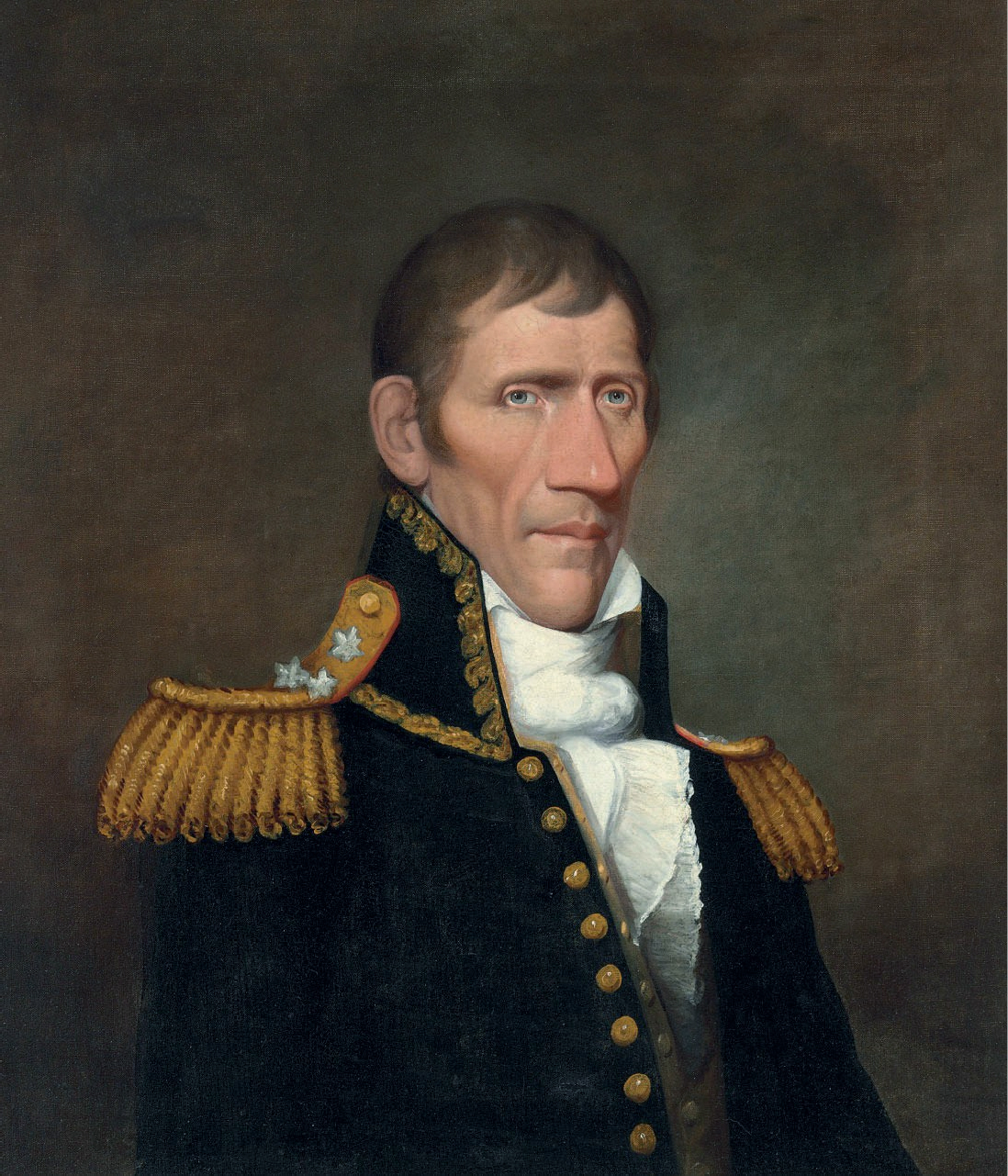 Portrait of Andrew Jackson